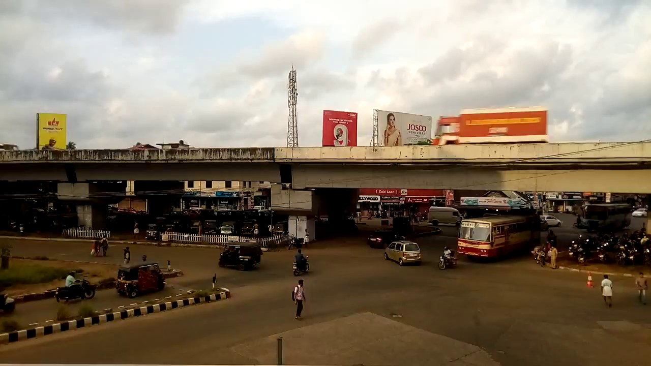 Chalakudy South Junction with flyover